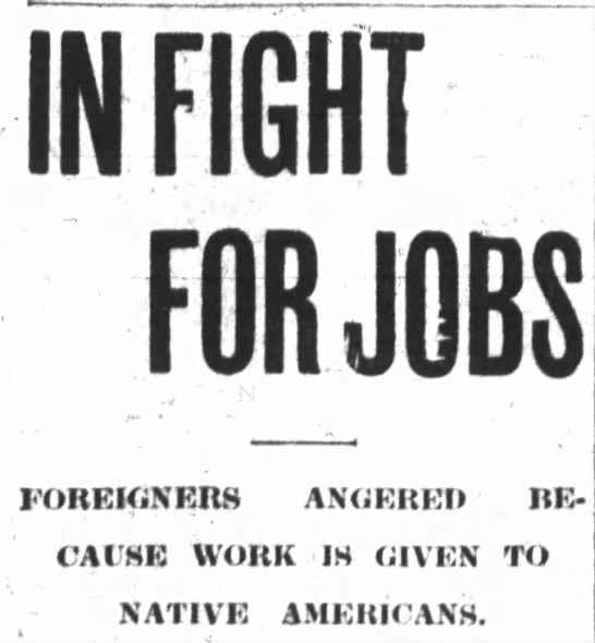 Belvidere Daily Republican. Apr 1908.